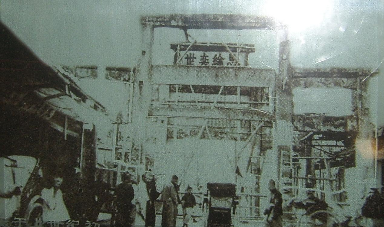 Hangzhou's Wulin Gate being taken down, 1922.